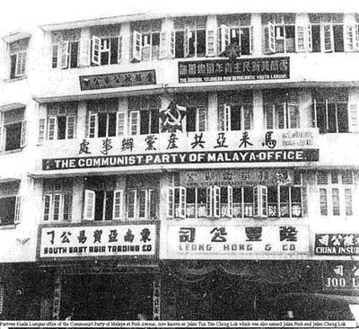 Communist Party of Malaya's office in Kuala Lumpur before the Emergency.